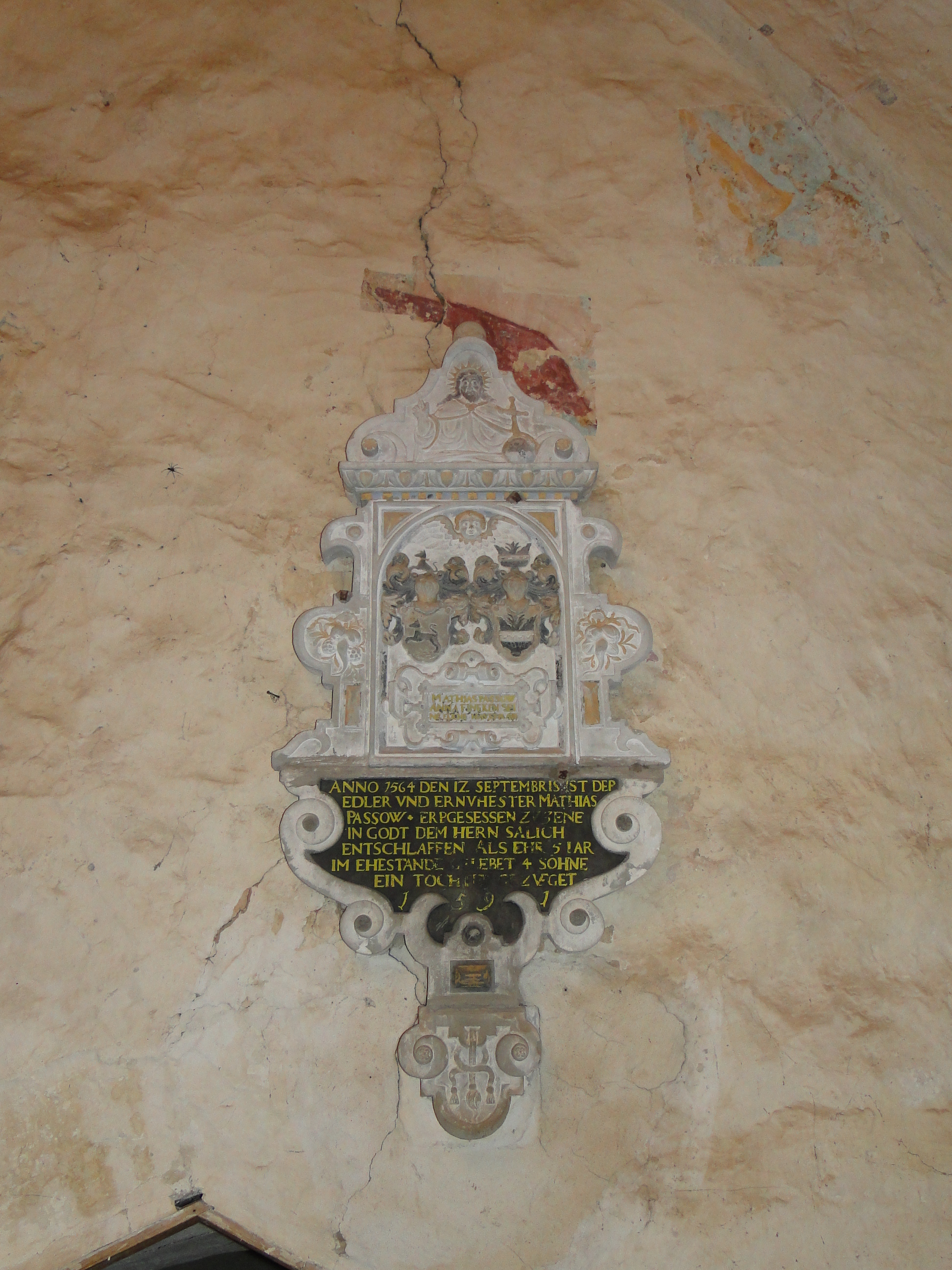 Church in Zehna, district Rostock, Mecklenburg-Vorpommern, Germany